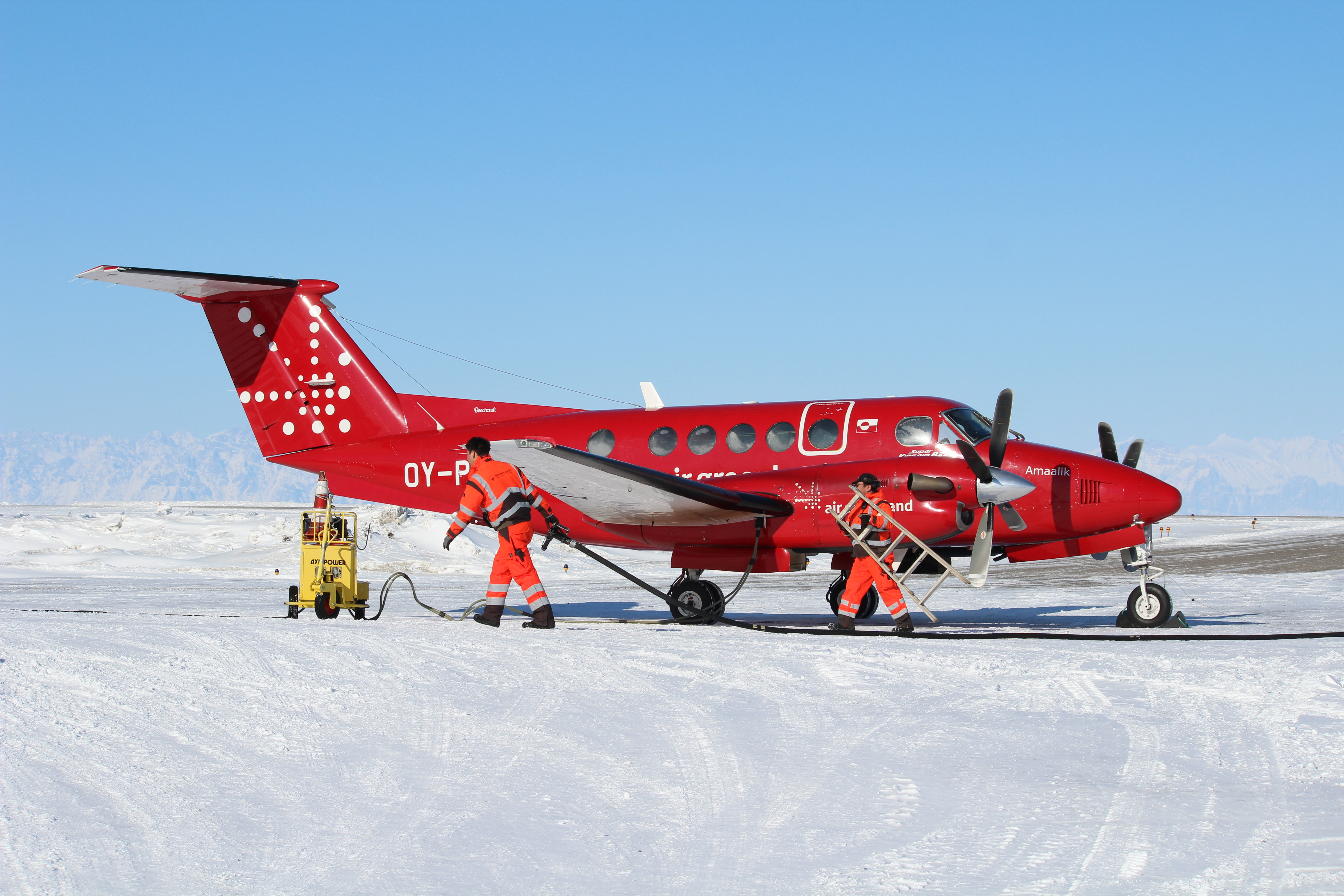 Fueling of a smaller aircraft